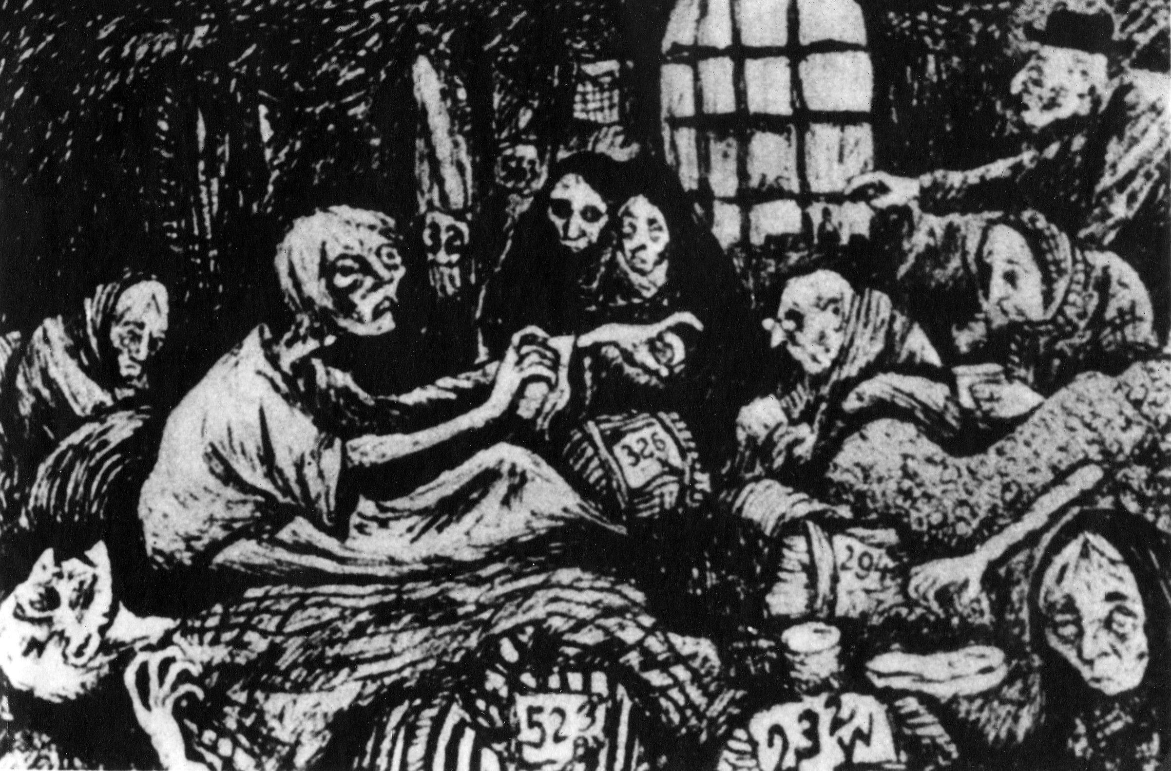 Drawing from the Theresienstadt ghetto